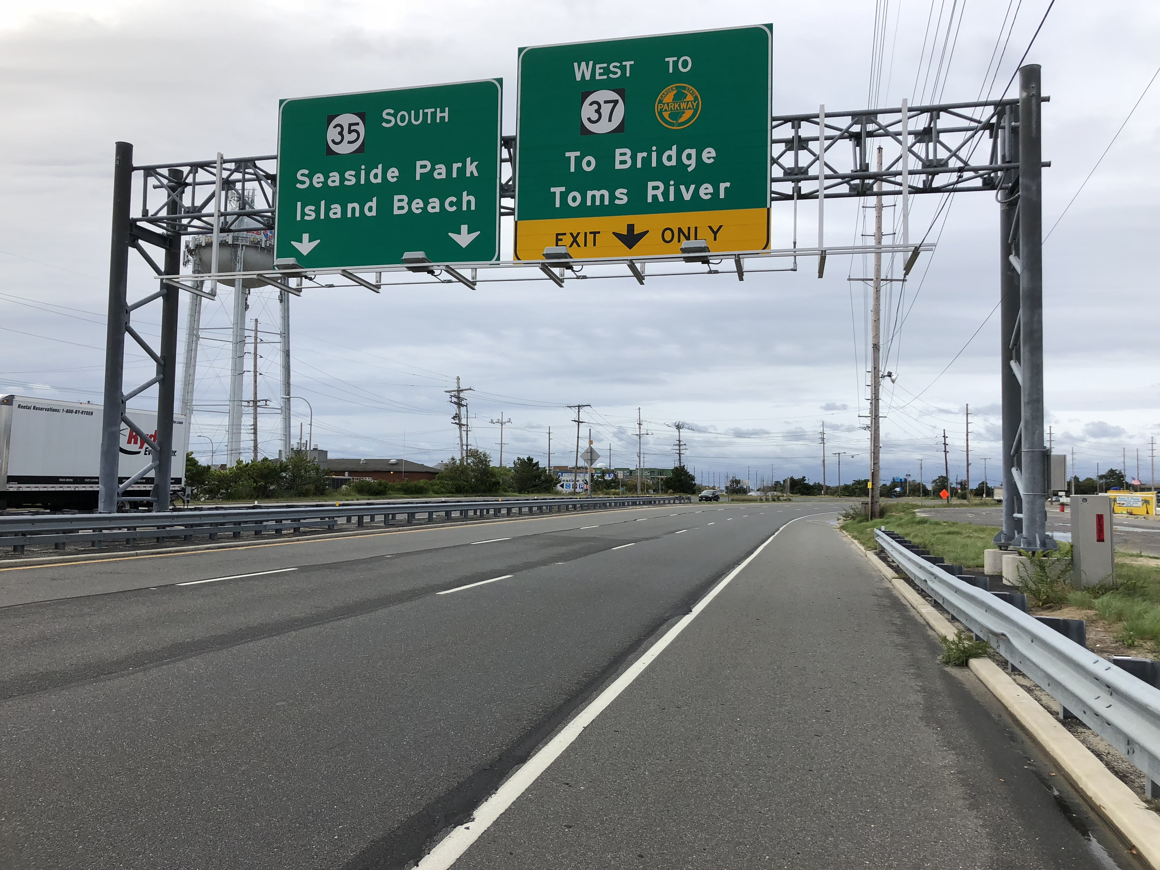 View south along New Jersey State Route 35 just north of the exit for New Jersey State Route 37 WEST (To Garden State Parkway, To Bridge, Toms River) in Seaside Heights, Ocean County, New Jersey